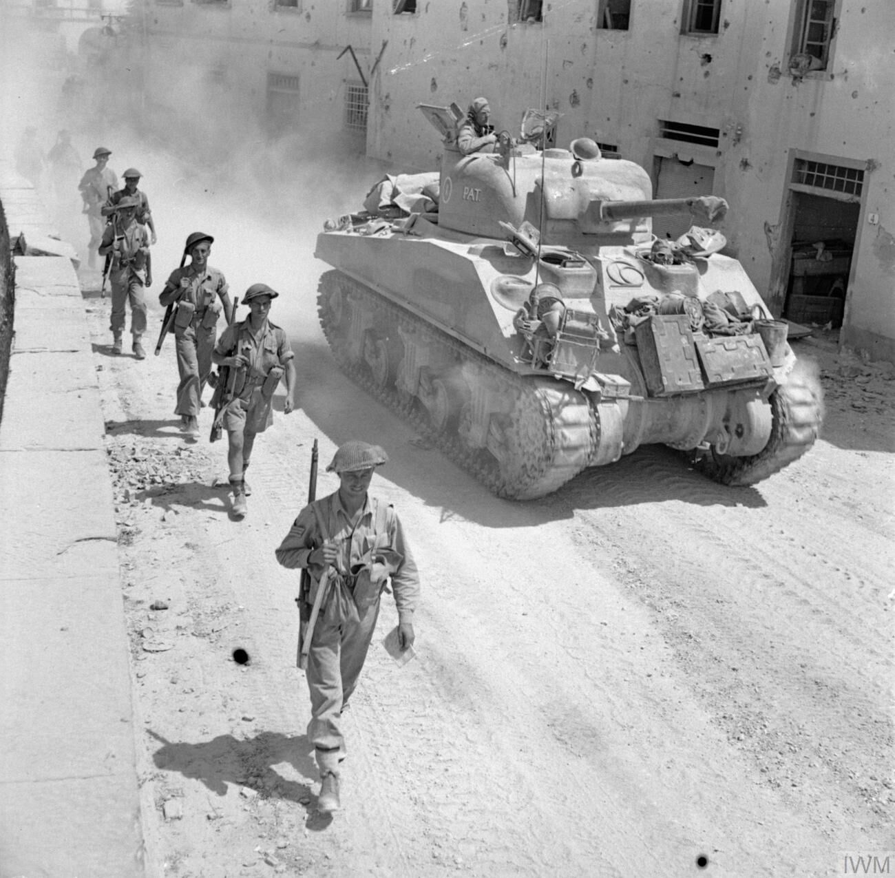 The British Army in Italy 1944 A Sherman tank and infantry advance through Imprunetta, 3 August 1944.